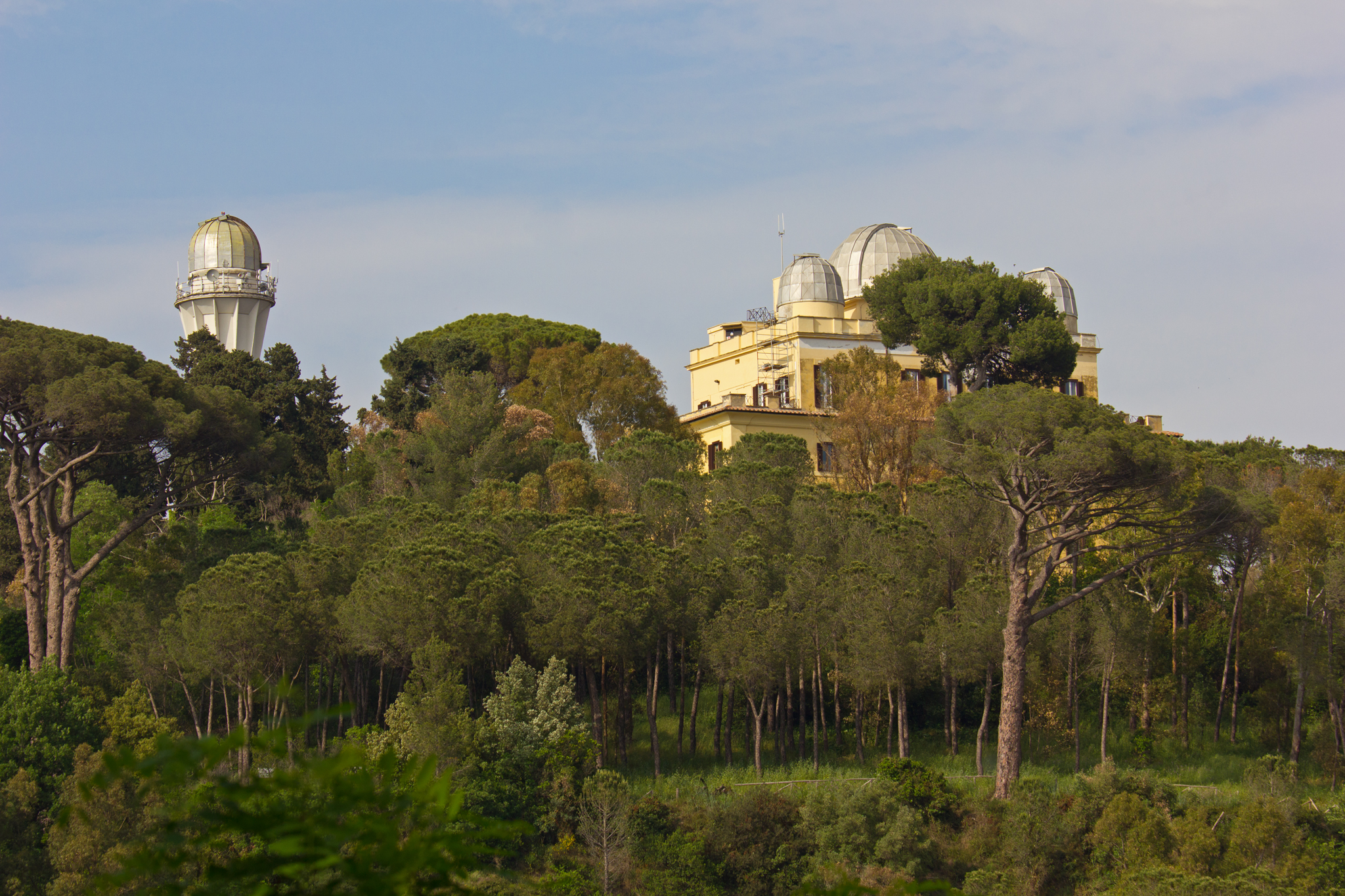 The astronomical observatory of Rome on Monte Mario. The observatory, which was inaugurated in 1938, was built in the old Villa Mellini. Three domes were constructed on top of the house, which was originally built in the 15th century for Cardinal Mario Mellini. To the left of the observatory building, the solar tower from 1951 can be seen. Although the building is no longer used as an active observatory, it is now home to the Istituto Nazionale di Astrofisica.